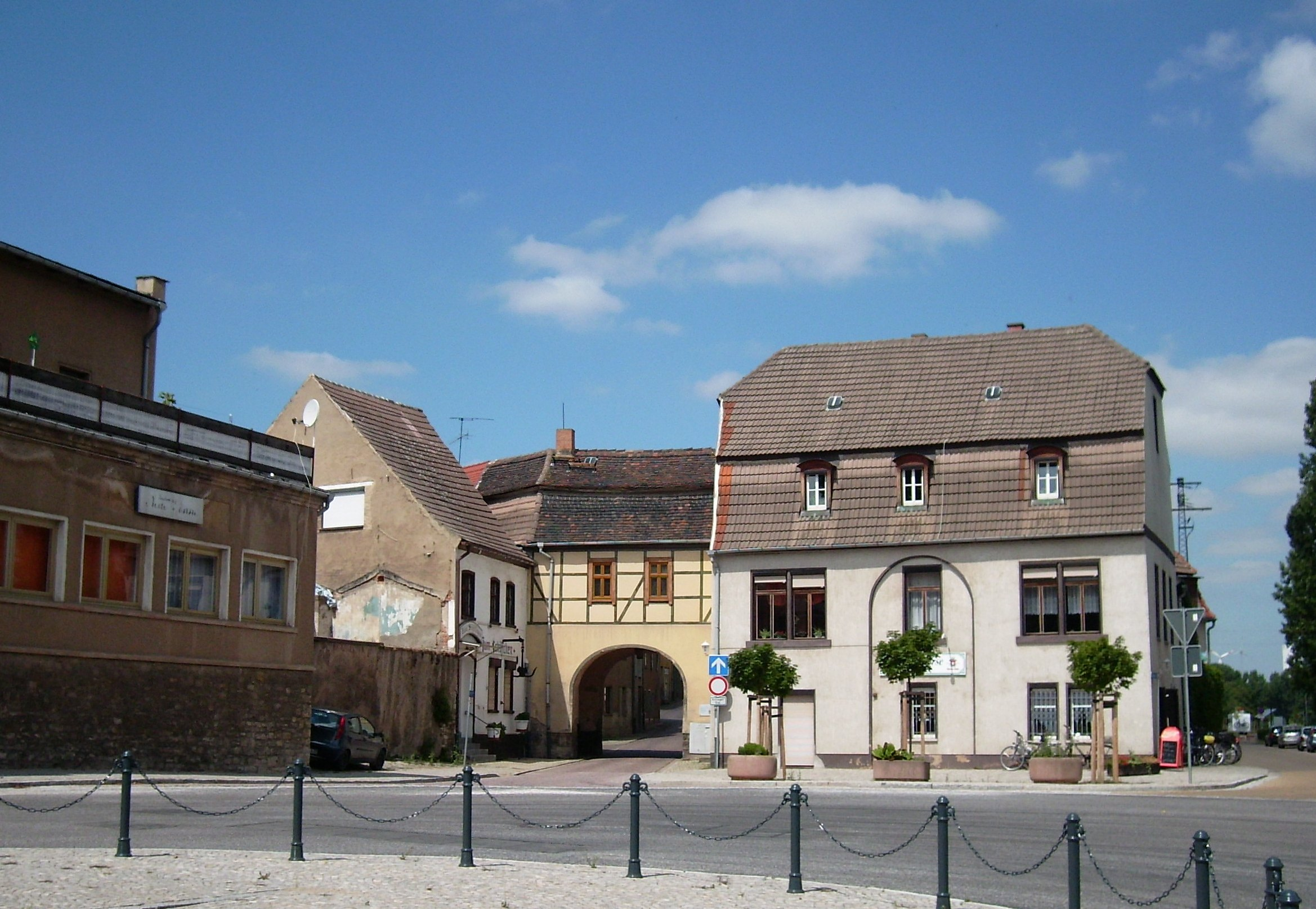 Saaltor ("Saale Gate") in Alsleben/Saale (district of Salzlandkreis, Saxony-Anhalt)